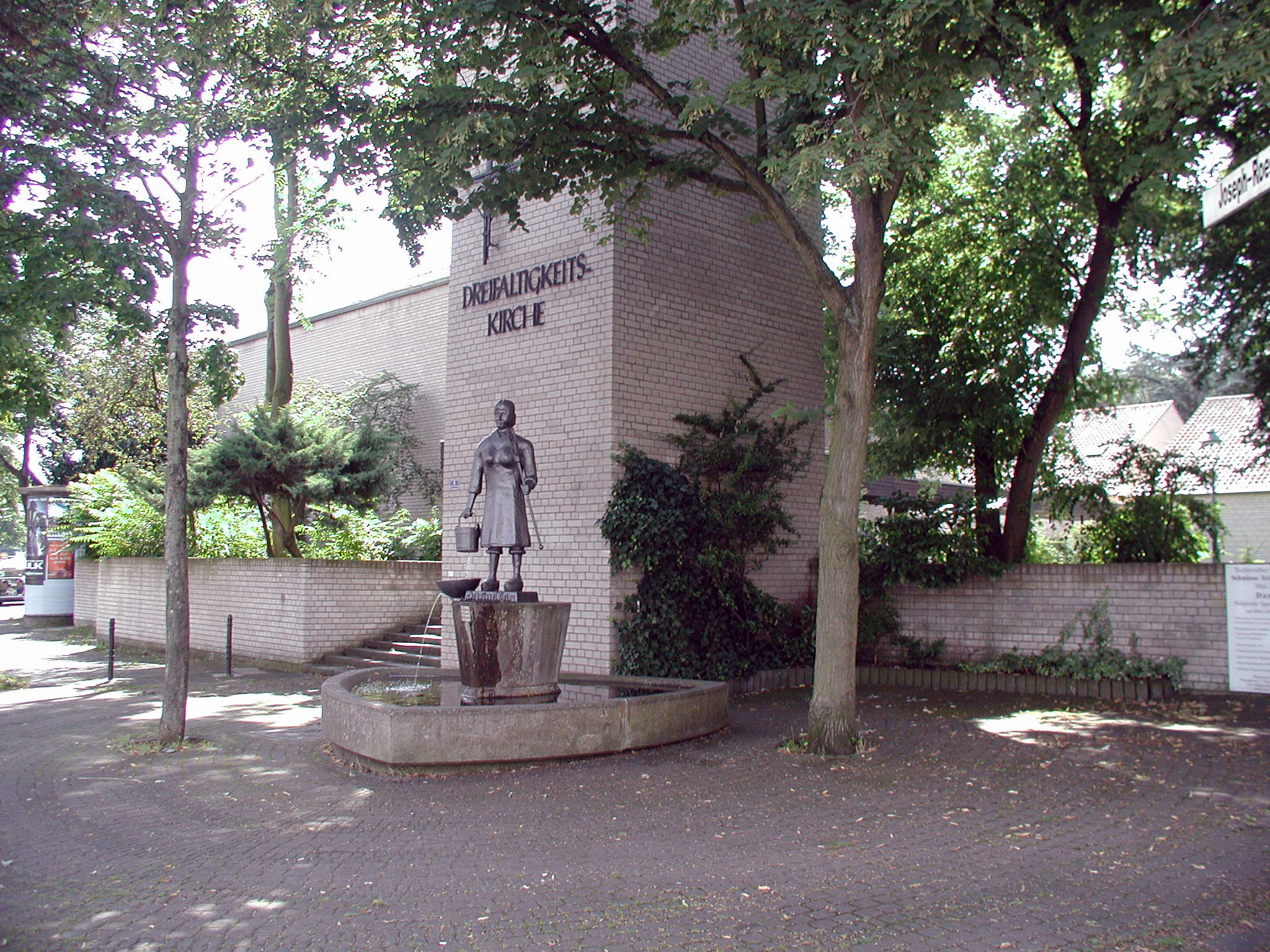 Cologne, Trinity church Köln-Ossendorf